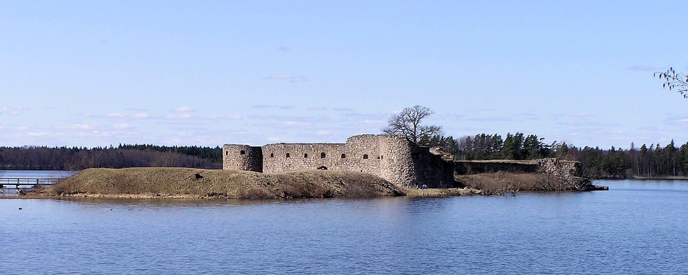 Island and Kronobergs Castle outside Växjö, Sweden